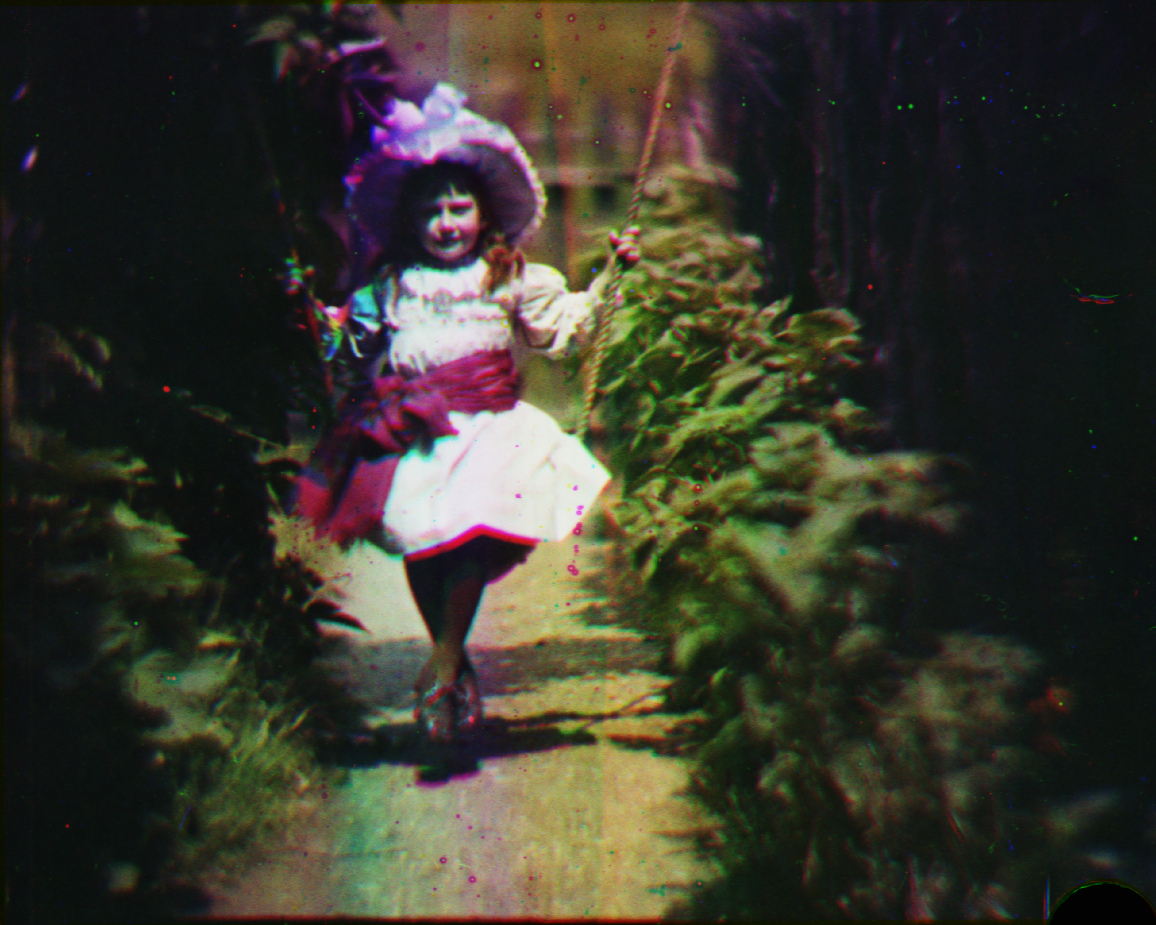 Image from the National Media Museum Collection. Between the end of 1901 and early 1903, Edward Turner made various test films of colourful subjects such as a parrot, a goldfish in a bowl against a brightly striped background and his children playing outside. Sadly on 9 March 1903, Turner died. Click on to the next picture to find out what happened next.